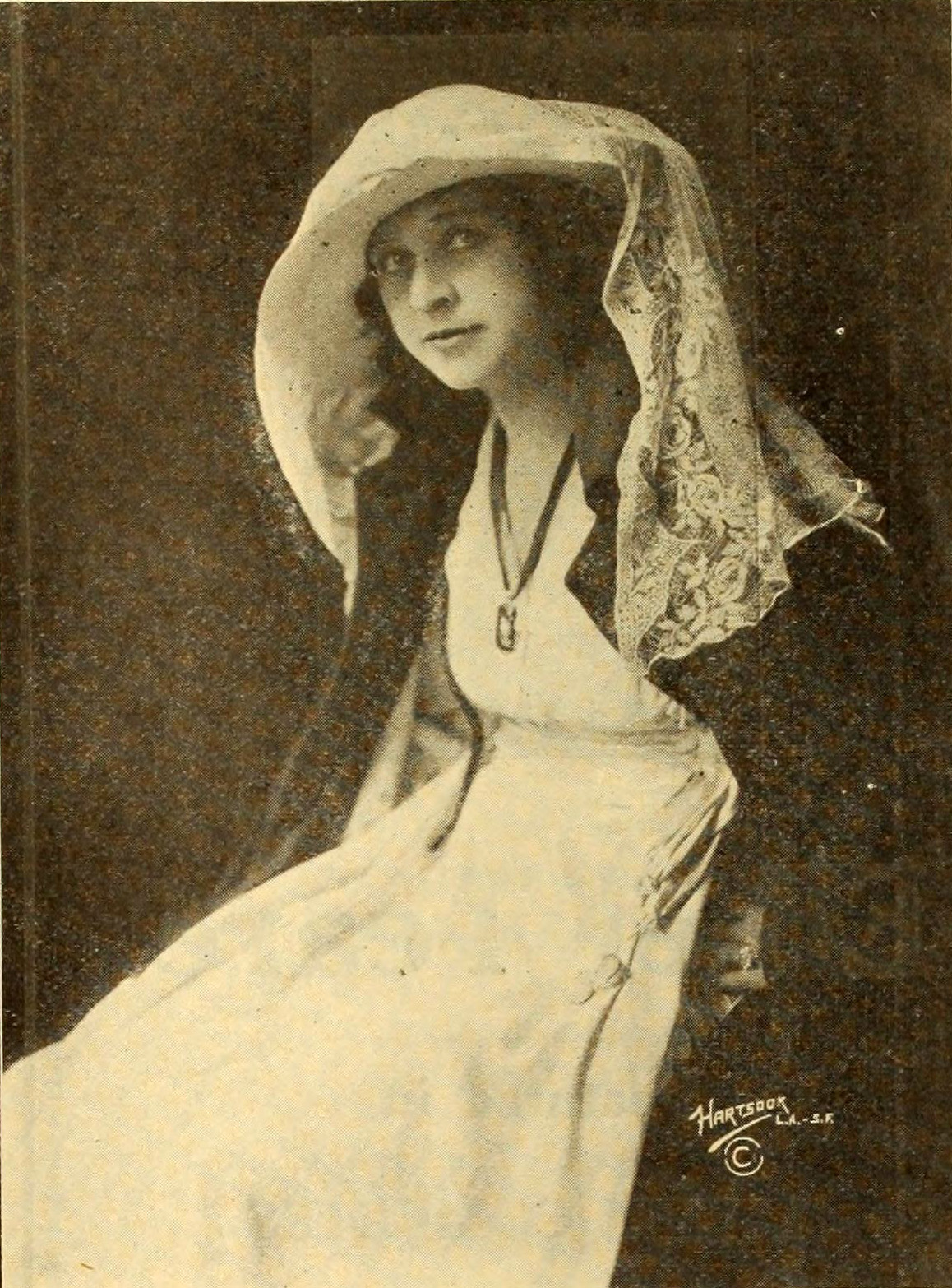 Actress Charlotte Burton in The Moving Picture World.